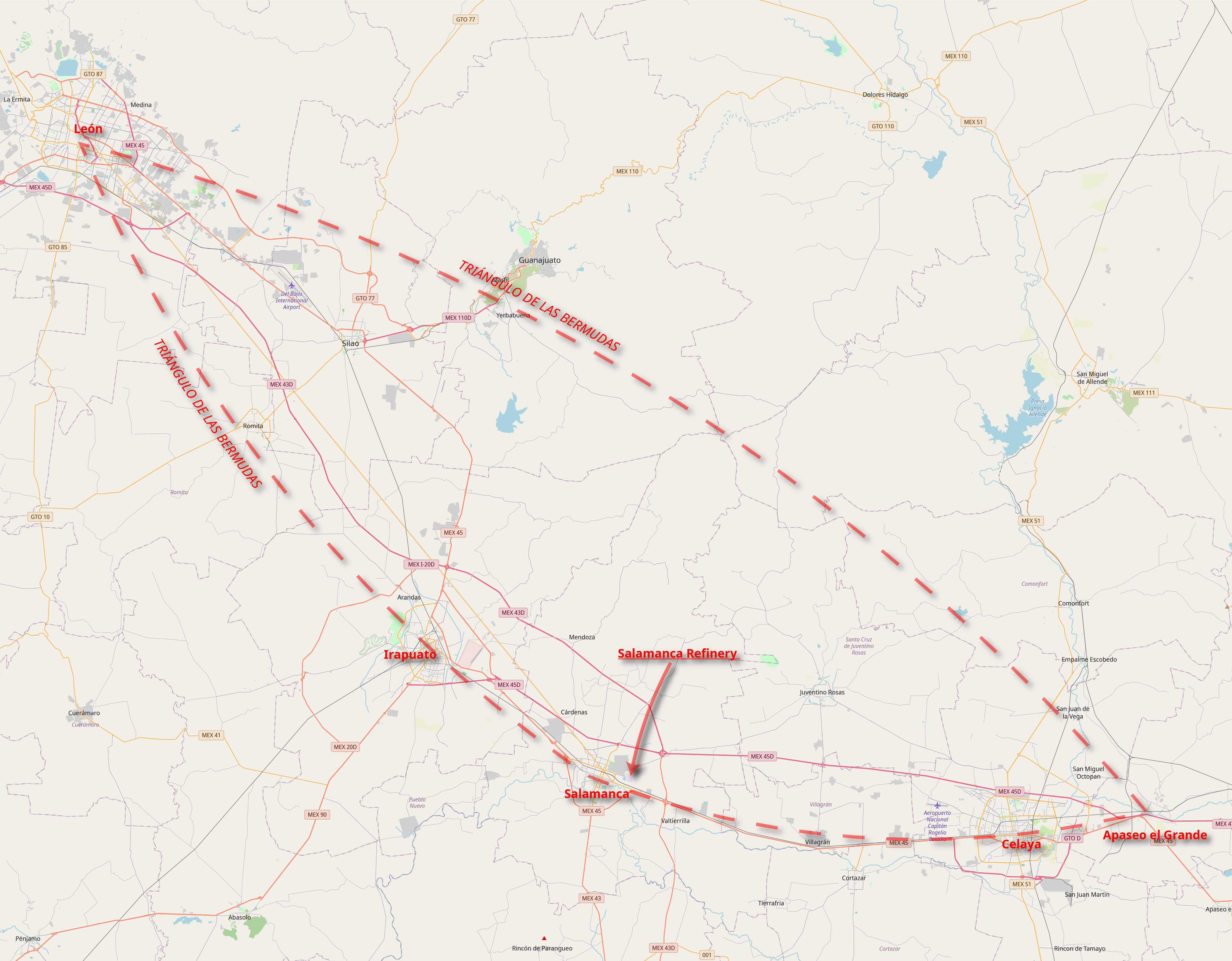 Region of Triángulo de las Bermudas in Guanajuato (León, Celaya, Irapuato, Salamanca and Apaseo el Grande).